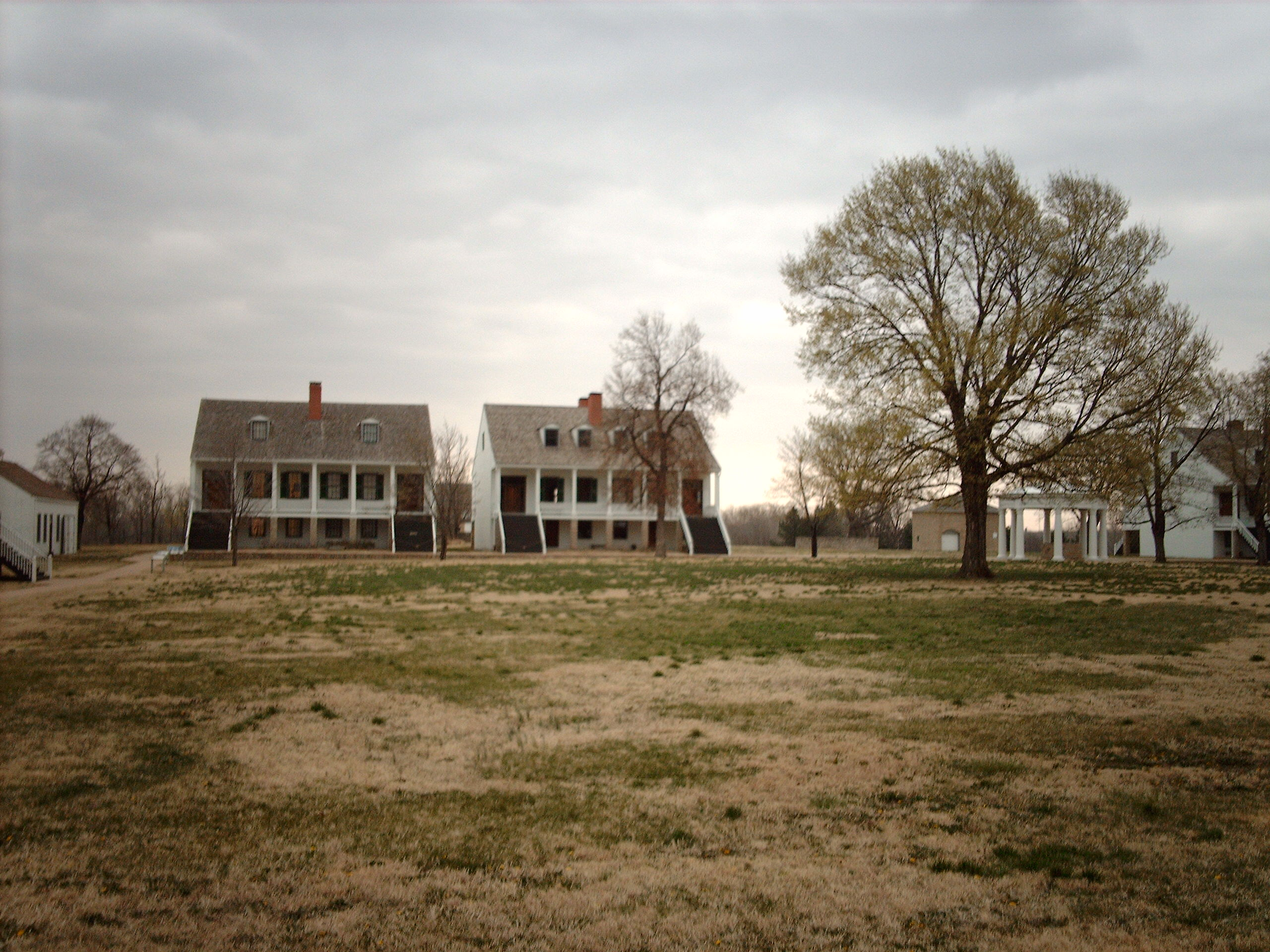 Fort Scott National Historic Site. I took this myself.